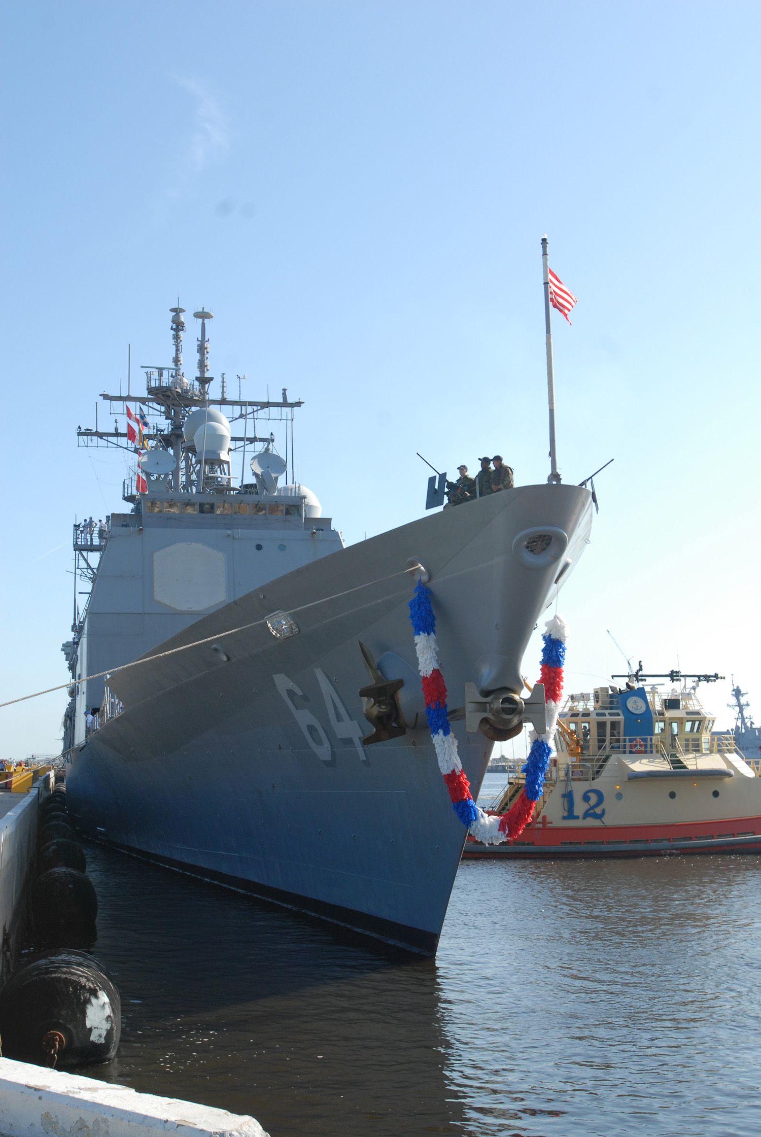 MAYPORT, Fla. (July 28, 2009) The guided-missile cruiser USS Gettysburg (CG 64) moors at Naval Station Mayport after returning from a scheduled deployment. Gettysburg participated in several counter piracy operations, capturing 17 suspected pirates in the Gulf of Aden.